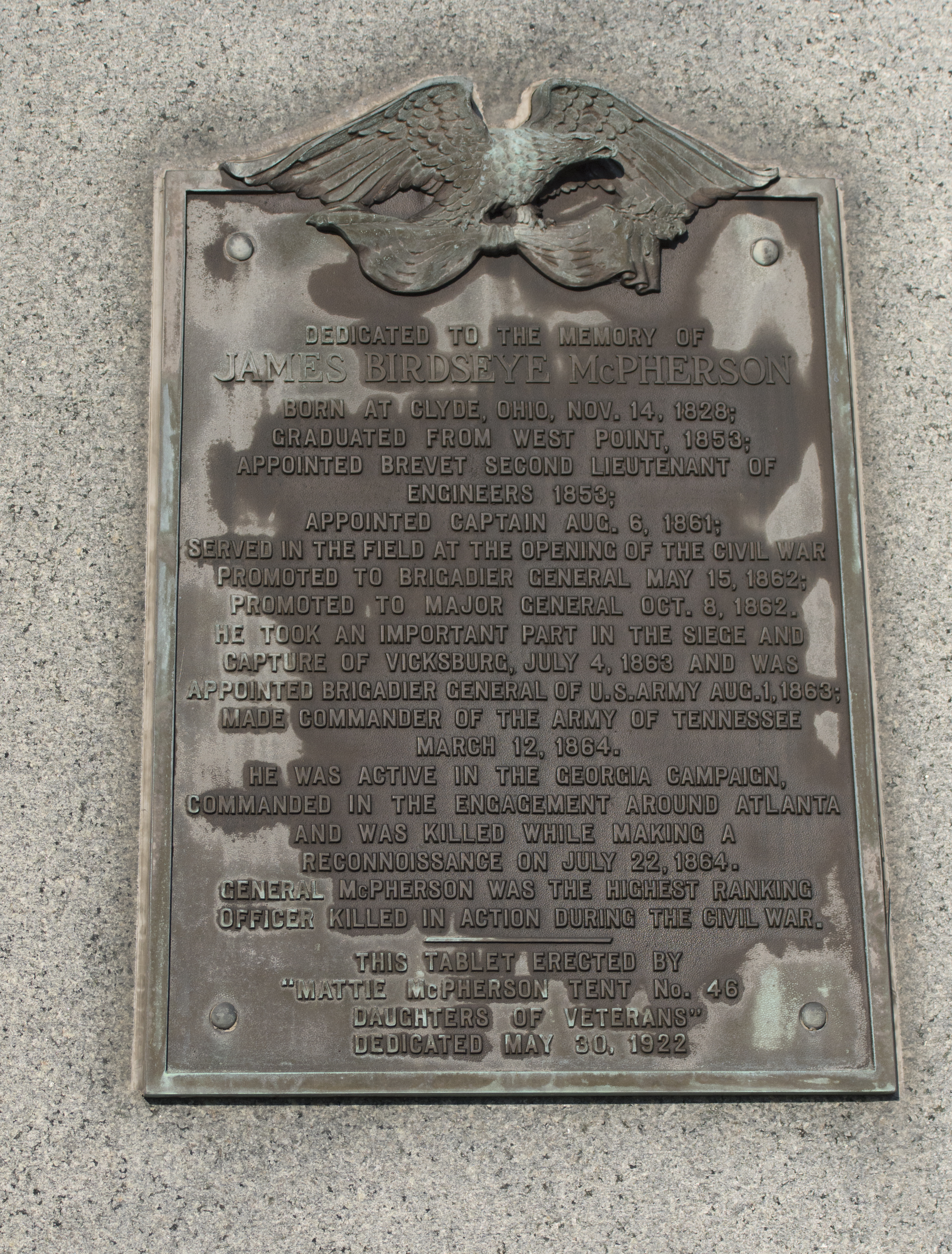 Plaque adorning US General James Birdseye McPherson's statue in McPherson Cemetery, Clyde, Ohio.